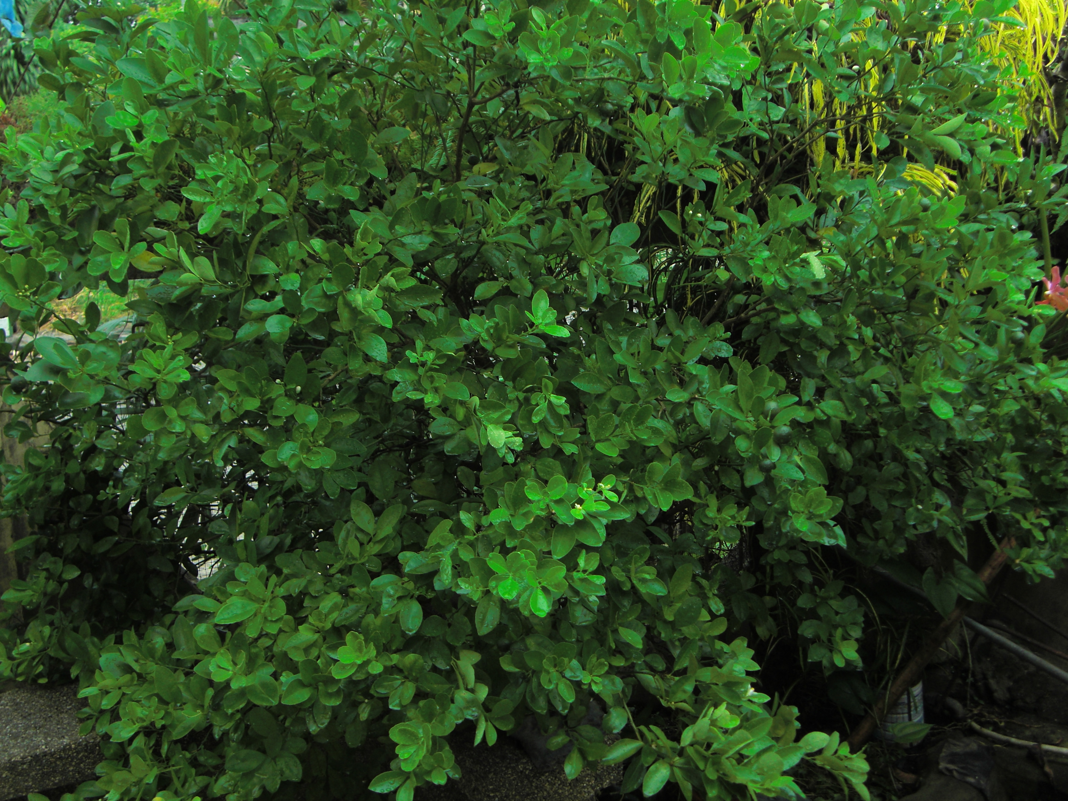 a philippine kalamansi tree